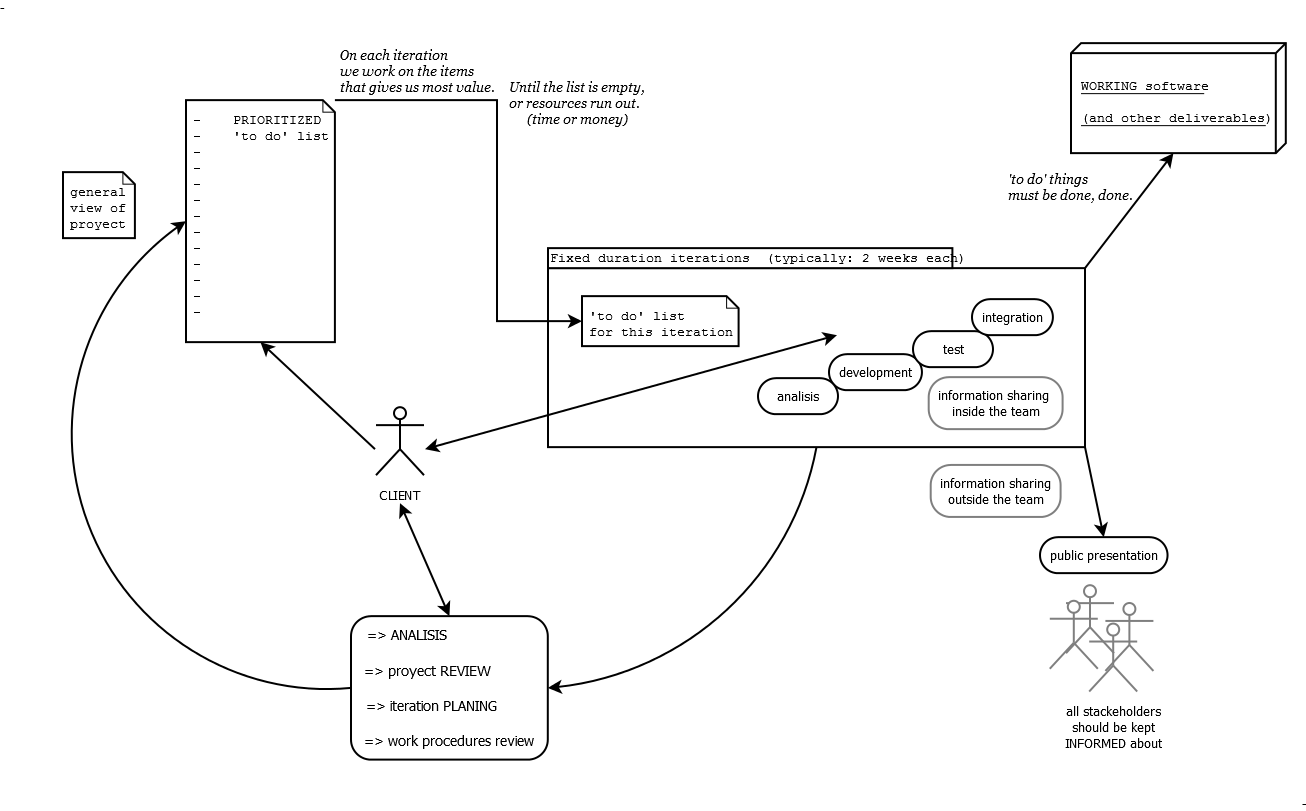 Generic diagram showing the main stethat are usually found using agile methodologies for sofware development.